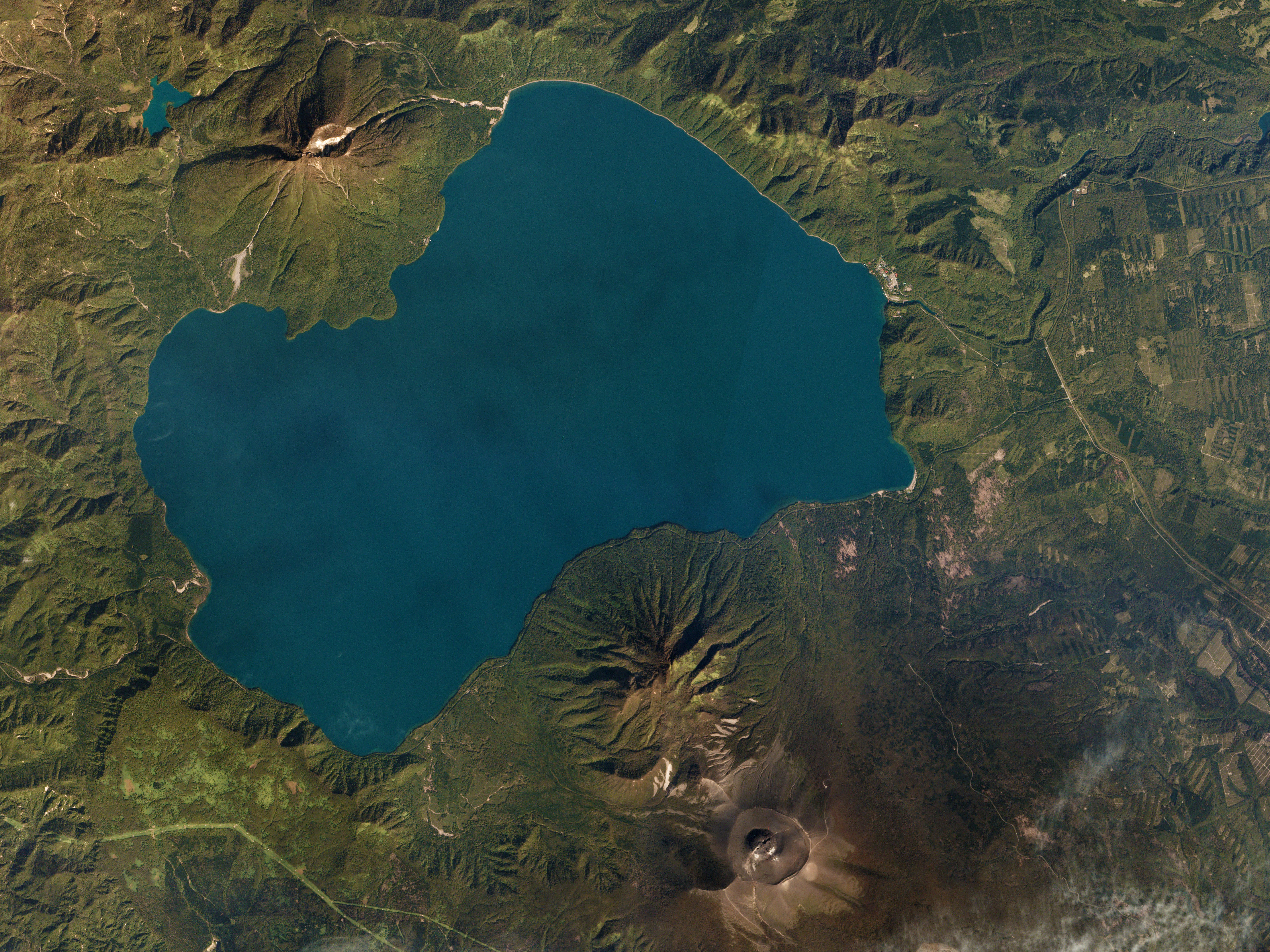 Lake Shikotsu, Hokkaido, Japan October 2, 2016 Lake Shikotsu—which fills a caldera formed 40,000 years ago—is located on Japan's northernmost island Hokkaido. Despite its latitude, the body of water remains ice-free year round, attracting tourists and residents alike to gaze at the reflections of Mount Eniwa (top), Mount Monbetsu (right), and Mount Fuppushi (bottom).